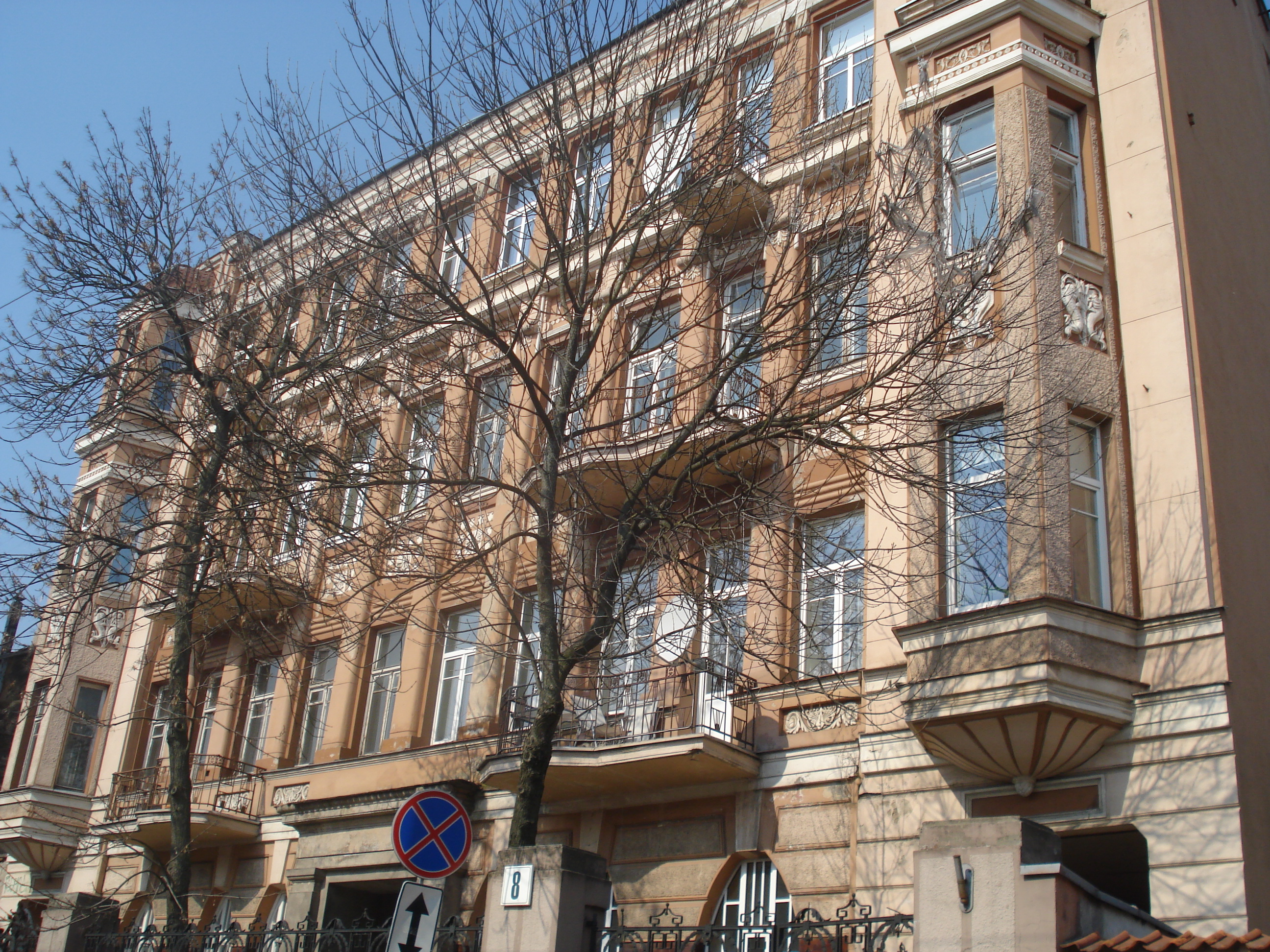 Modern (in 1913) apartment house of Germaizov family. Architect S. Soroka (Subačiaus g. 8). Build 1913